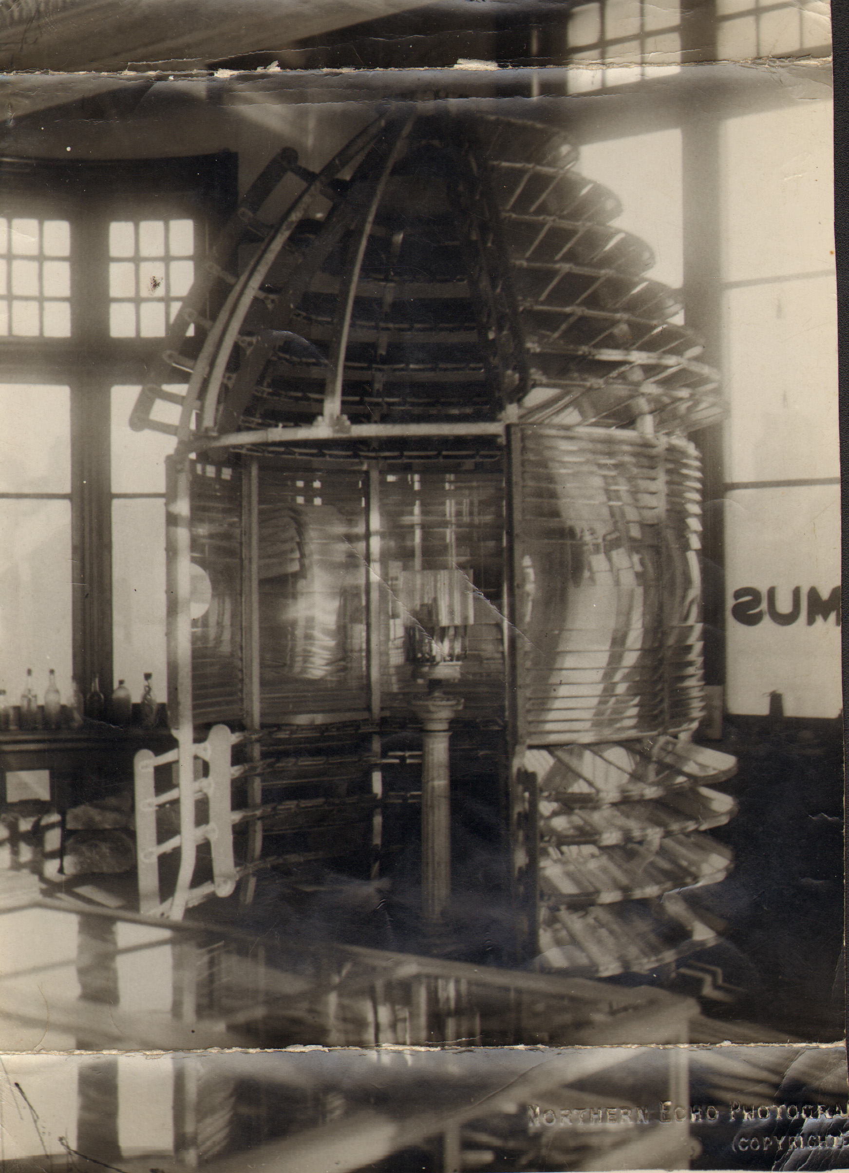 This is a photograph of the Old Heugh gas burning lamp. The optic (lenses) and part of the lamp array are presently displayed at the Museum of Hartlepool. Photograph Collection No : 120'69 Images from Hartlepool Cultural Services that are part of The Commons on Flickr are labeled 'no known copyright restrictions' indicating that Hartlepool Cultural Services is unaware of any current copyright restrictions on these images either because the copyright is waived or the term of copyright has expired. Commercial use of images is not permitted. Applications for commercial use or for higher quality reproductions should be made to Hartlepool Cultural Services, Sir William Gray House, Clarence Road, Hartlepool, TS24 8BT. When using the images please credit 'Hartlepool Cultural Services'.